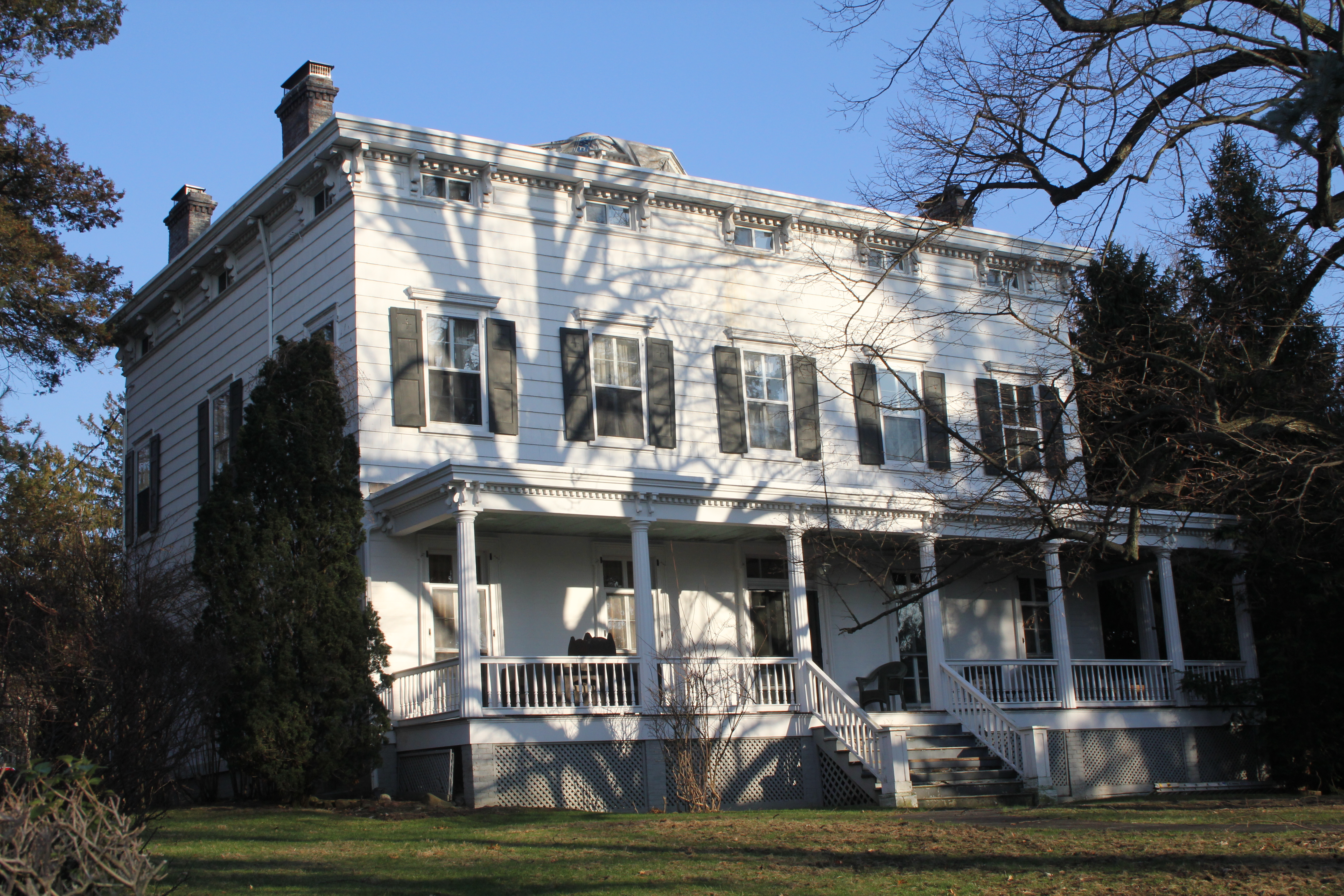 Allen-Beville house, located in Douglaston, borough of Queens, New York City. Constructed c. 1850 and listed on the National Register of Historic Places.